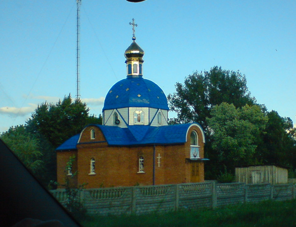 village Kuhari